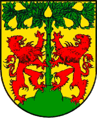 Coat of arms of the city of Pirna.